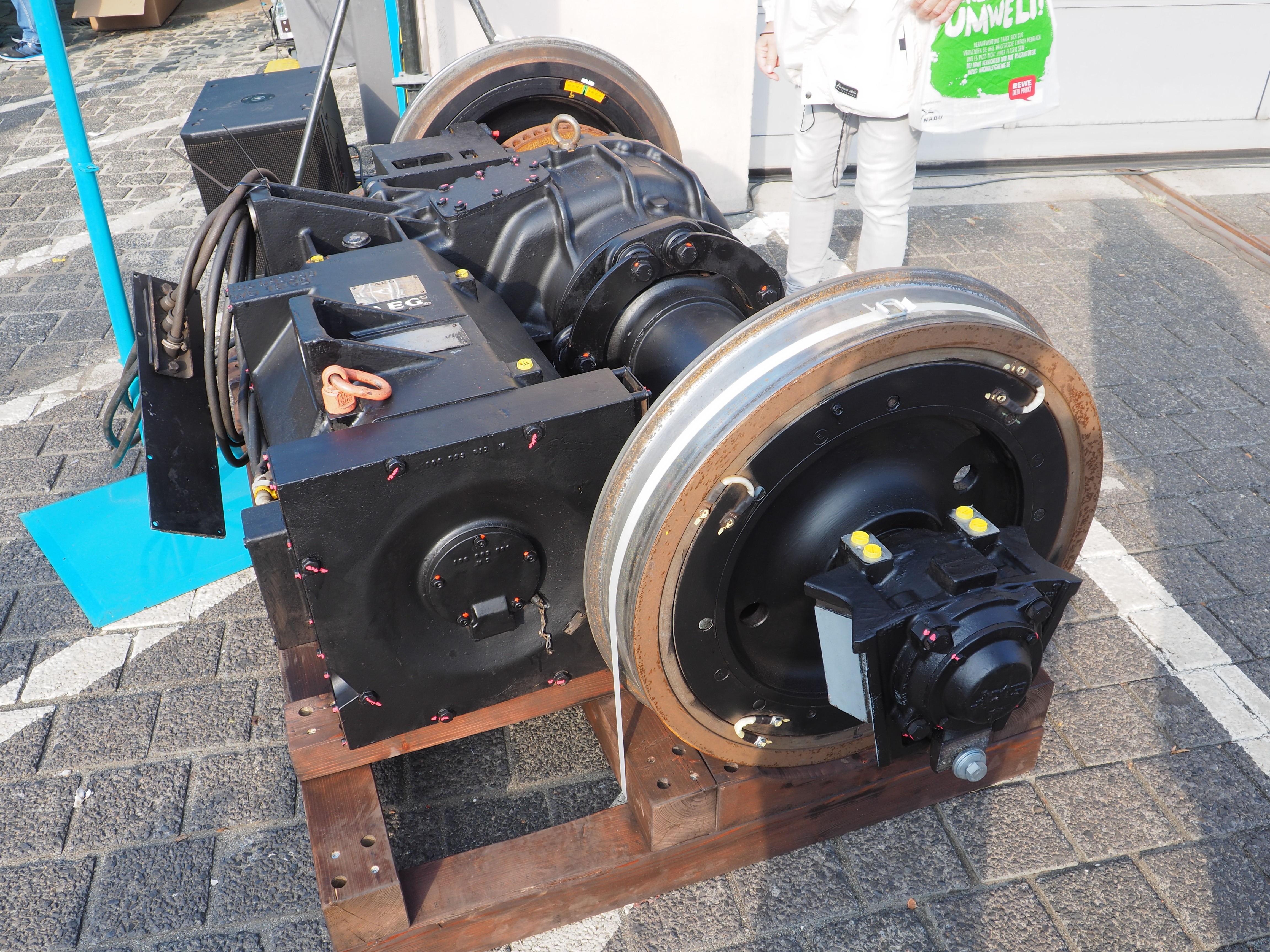 U4 class: Axle with motor and (exhibition in Heddernheim depot)